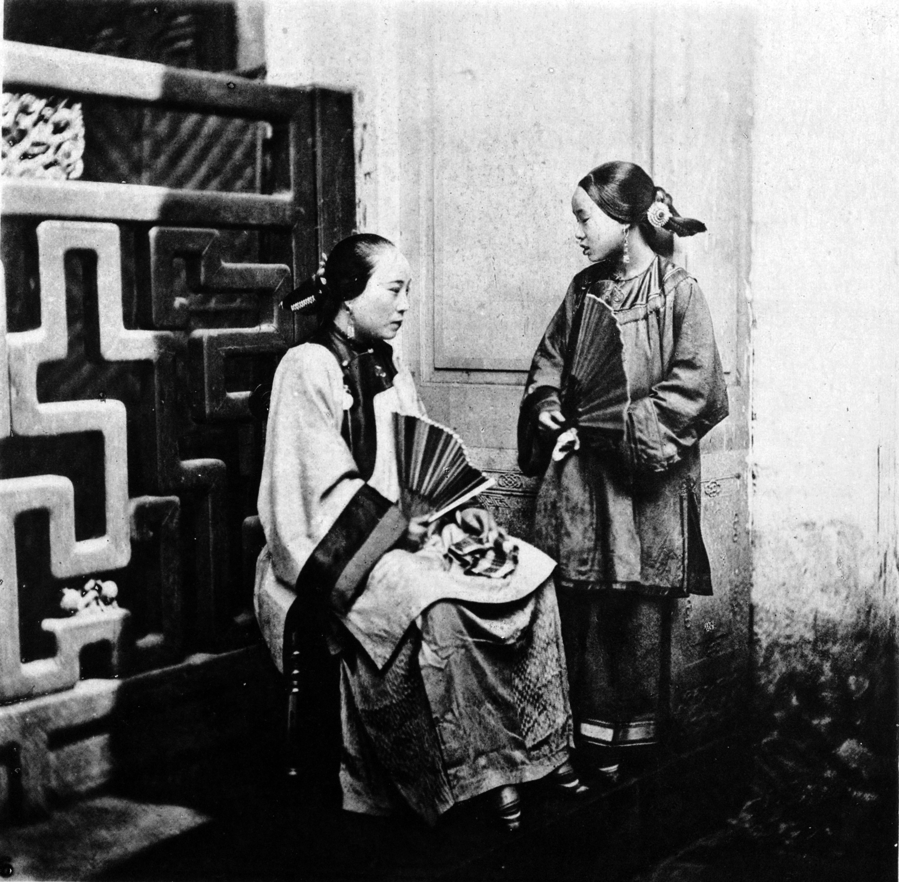 Photograph by John Thomson. See detail on the Wikisource link below.